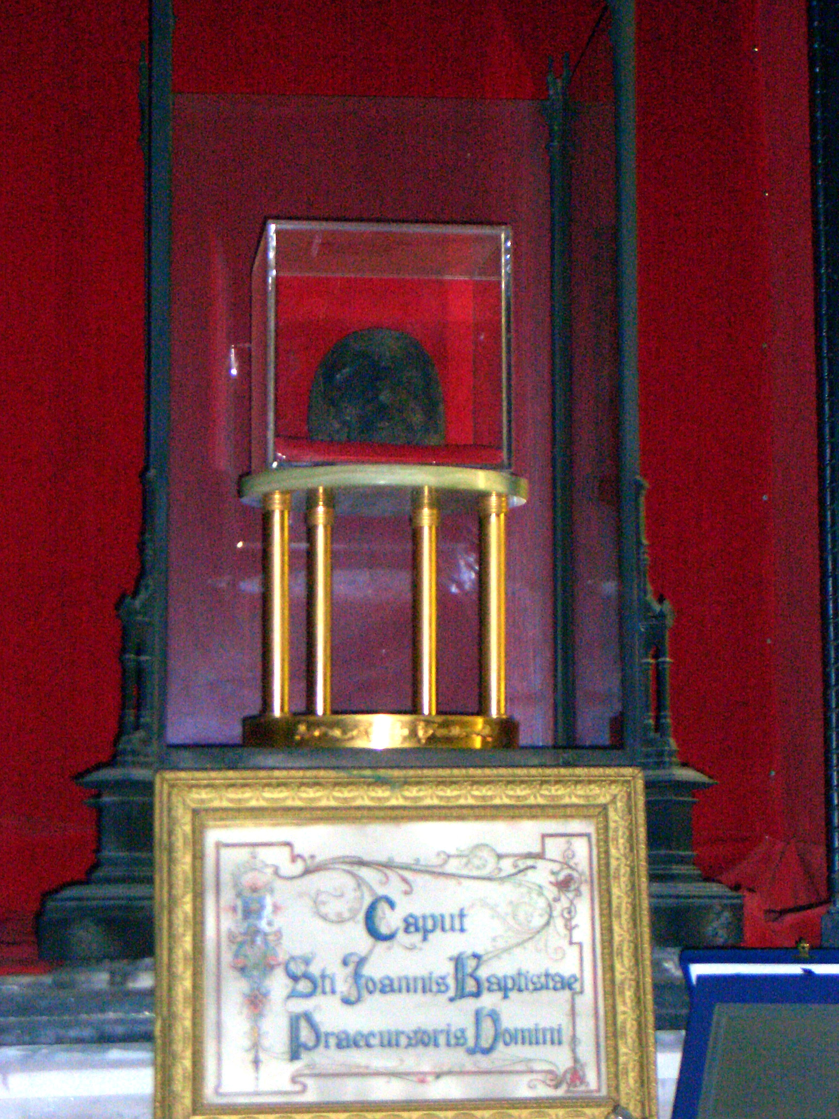 The presumed 'Head of St John', enshrined in Rome